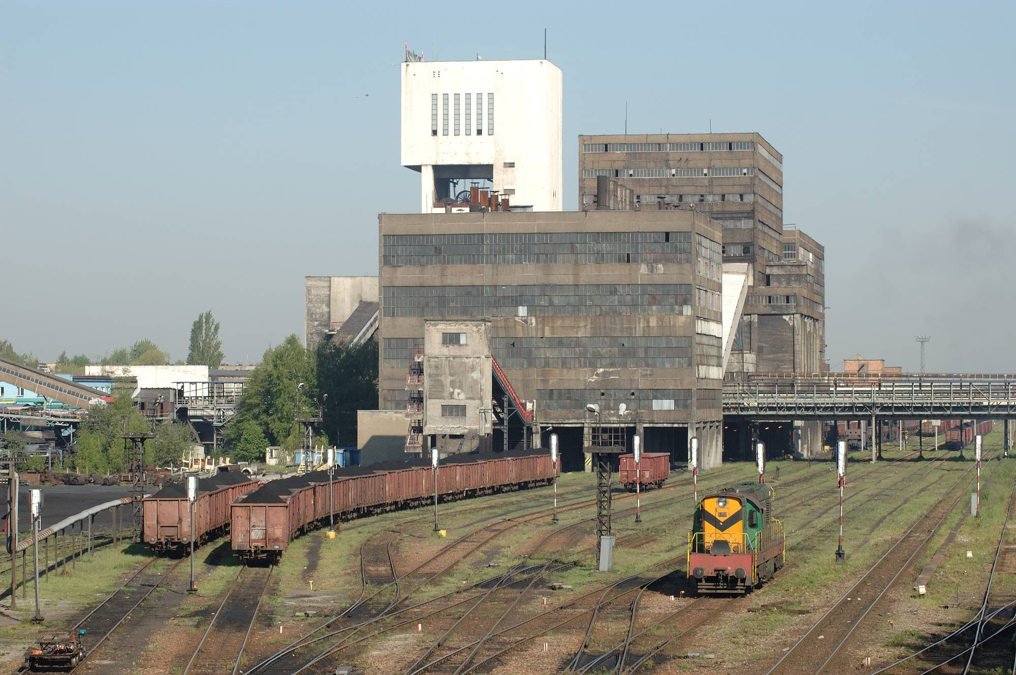 The "Zofiówka" mine, Jastrzębie-Zdrój, Poland